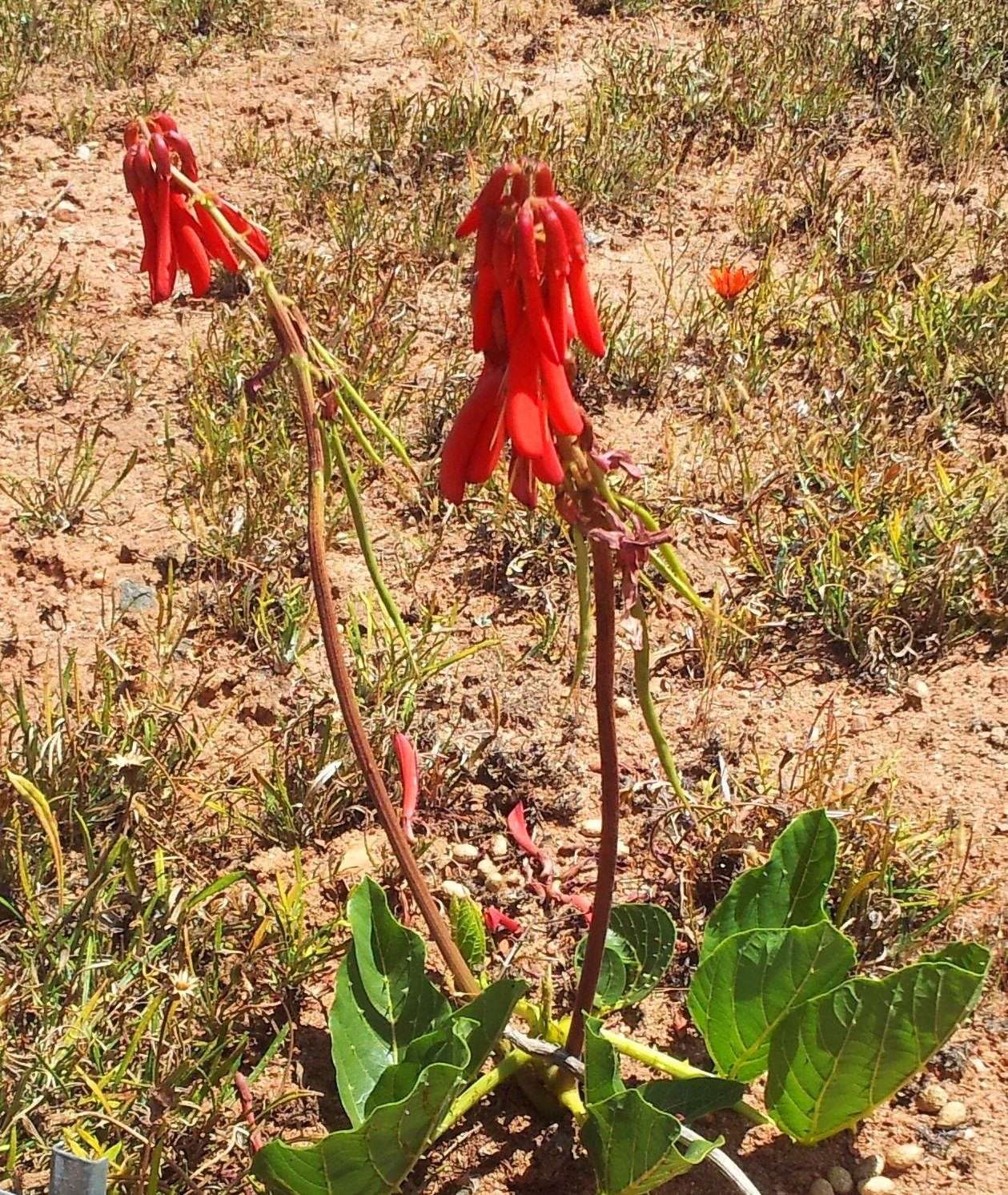 Erythrina zeyheri - Plough-breaker plant - Karoo Desert NBG - Worcester RSA